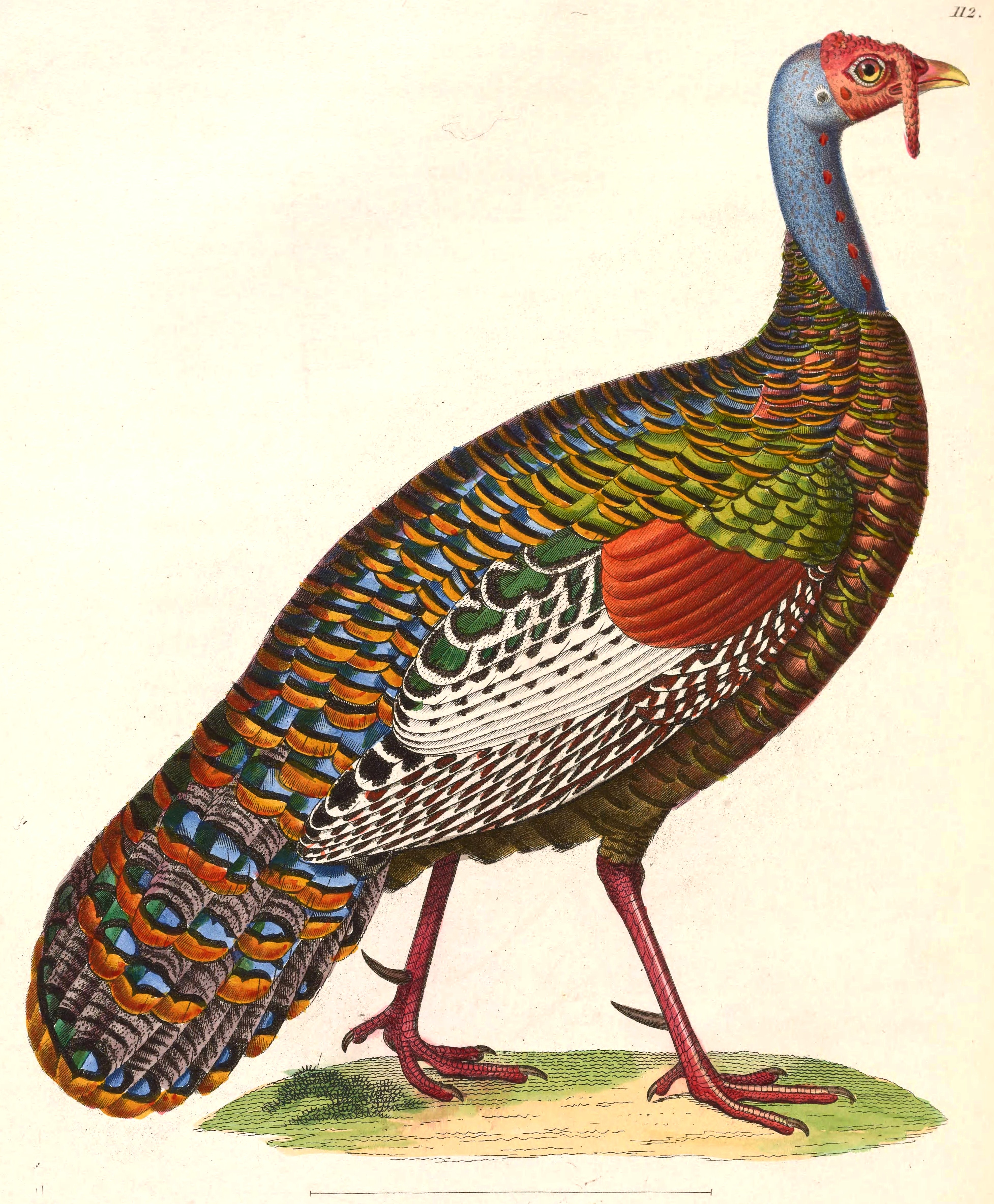 « Meleagris ocellata » = Meleagris ocellata (Ocellated Turkey) - male